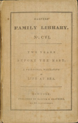 [DANA, Richard Henry, Jr. (1815-1882)]. Two Years before the Mast: A Personal Narrative of Life at Sea. New York: Harper & Brothers, 1840.